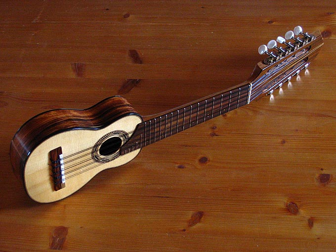 Peruvian charango. String length 35cm. Total length of the instrument: 64cm. Tuning: E-A-E-C-G.